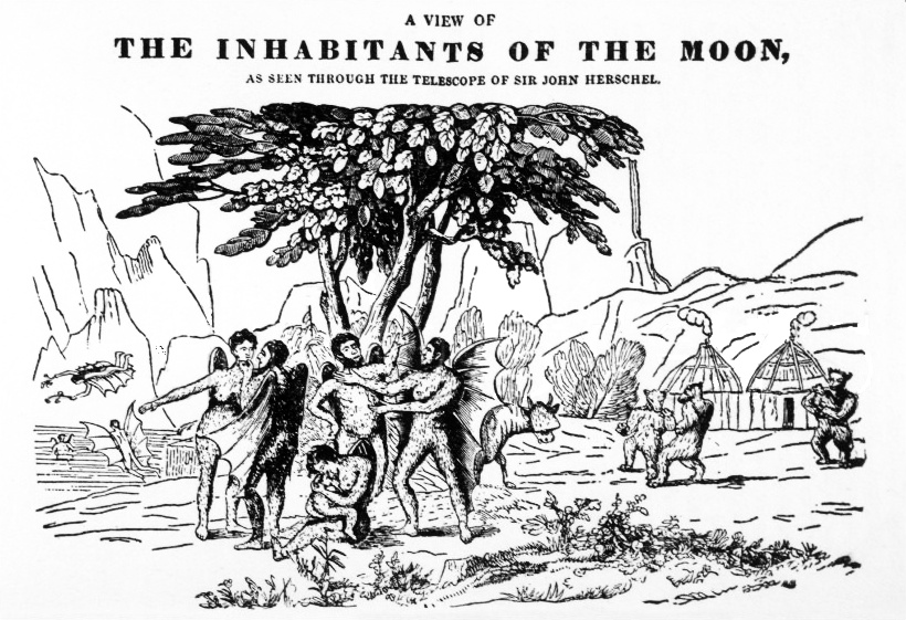 "A View of the Inhabitants of the Moon". Illustration from an 1836 English pamphlet, publisher unknown. Note the biped beavers on the right